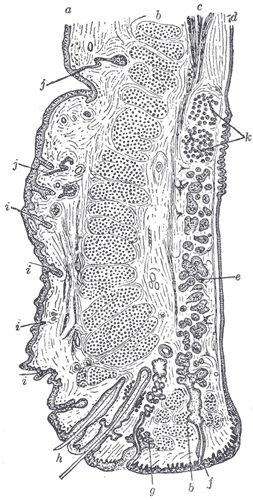 Sagittal section through the upper eyelid. (After Waldeyer.) a. Skin. b. Orbicularis oculi. b’. Marginal fasciculus of Orbicularis (ciliary bundle). c. Levator palpebræ. d. Conjunctiva. e. Tarsus. f. Tarsal gland. g. Sebaceous gland. h. Eyelashes. i. Small hairs of skin. j. Sweat glands. k. Posterior tarsal glands.